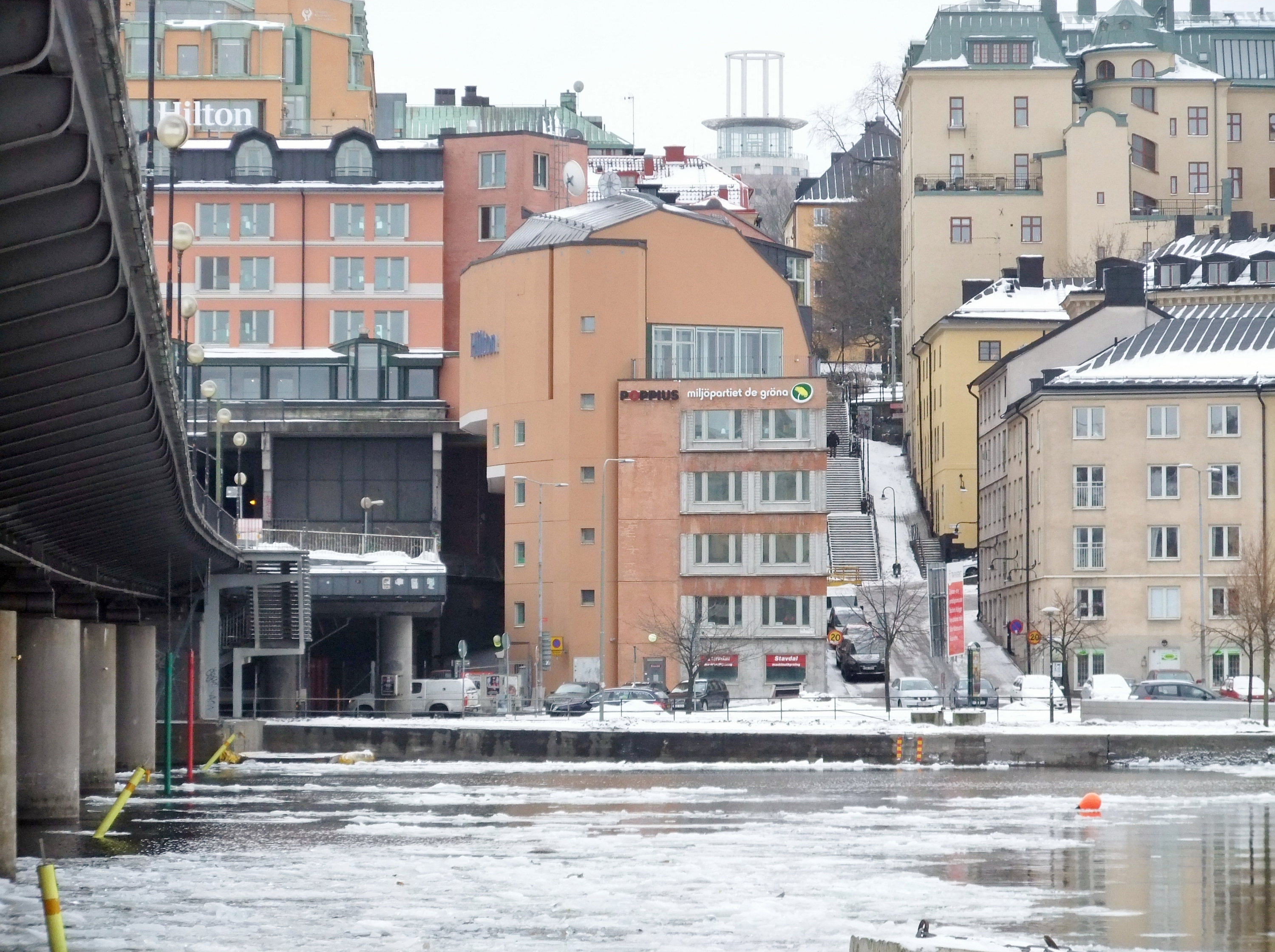 Journalism school in Stockholm, Sweden